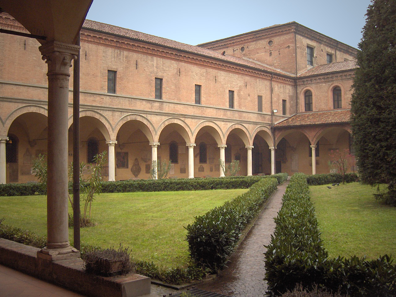 Convent of the Basilica of Saint Dominic, Bologna, Italy